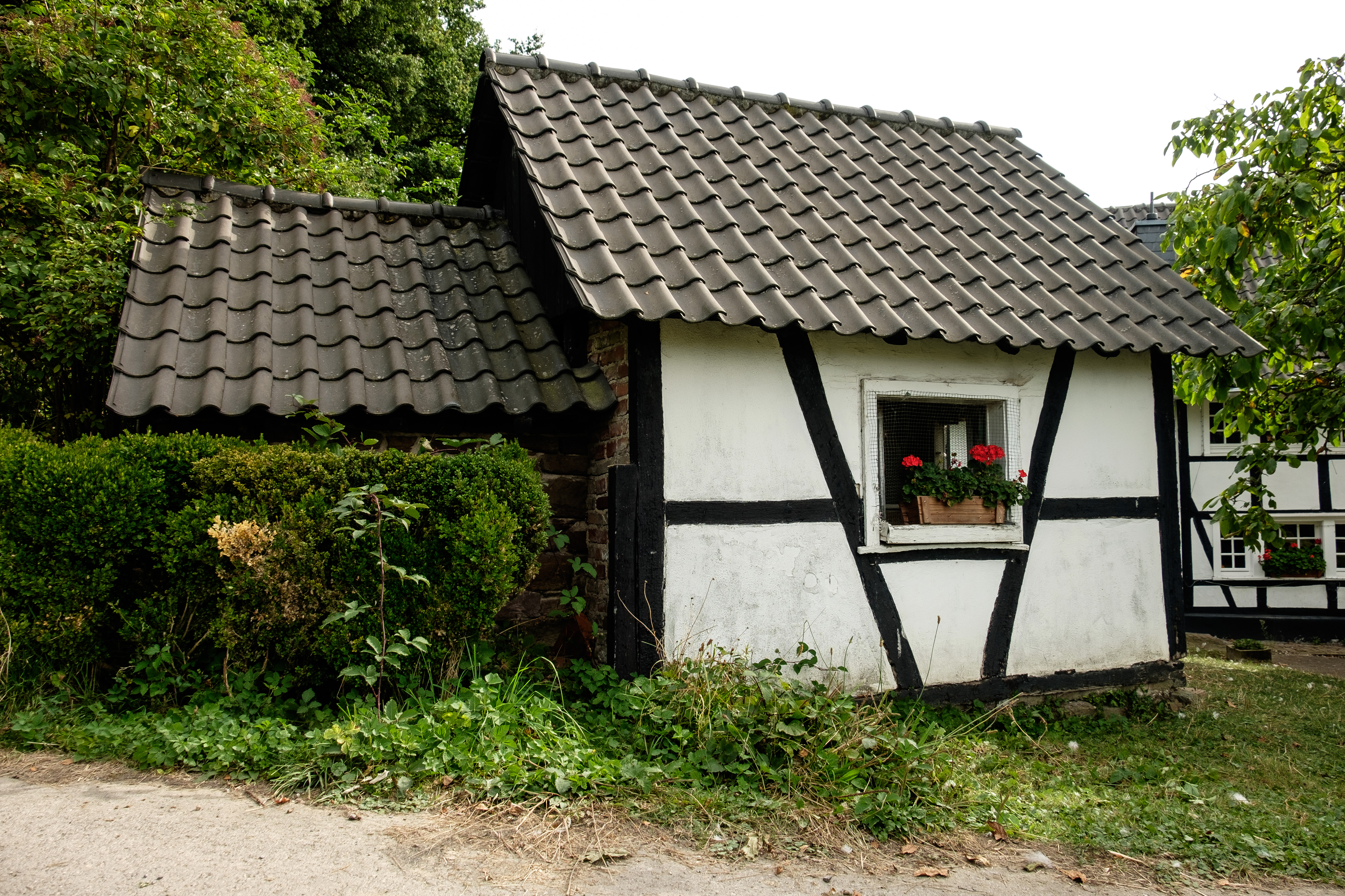 Odenthal, Monument 7, Bakehouse, Oberkirsbach, Oberkirsbach 1